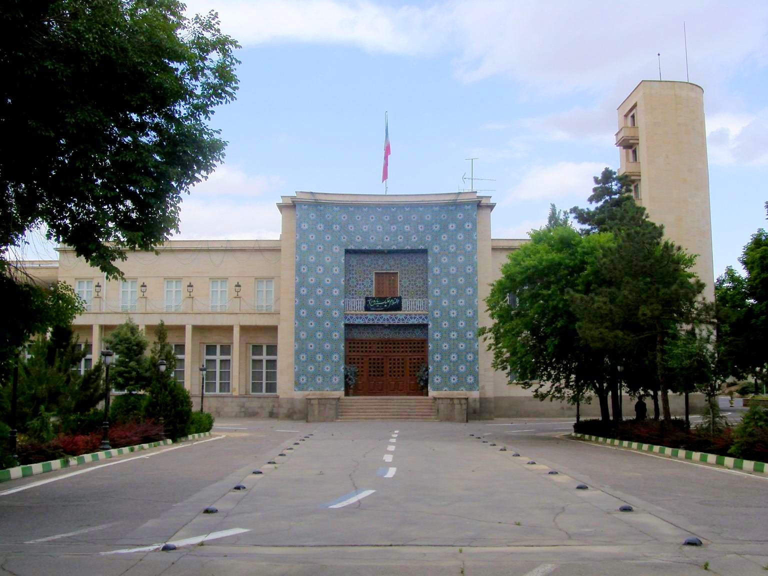 East Azarbaijan Governorship Building, Tabriz, Iran